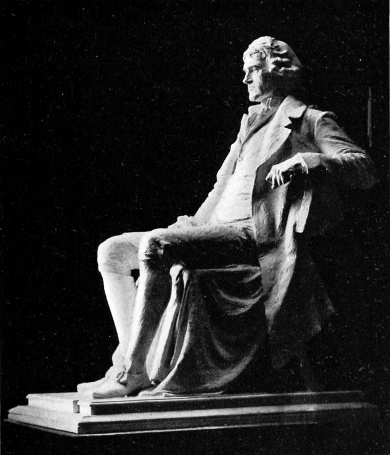 Sculpture of Thomas Jefferson seated for the University of Virginia in Charlottesville